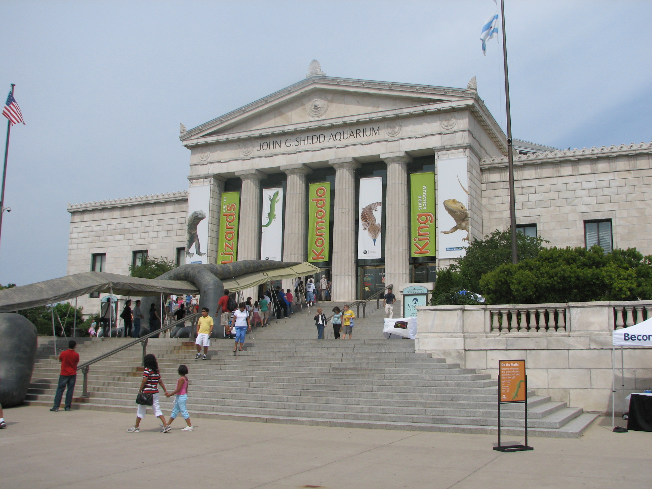 Acuario Shedd en Chicago, Illinois EUA.